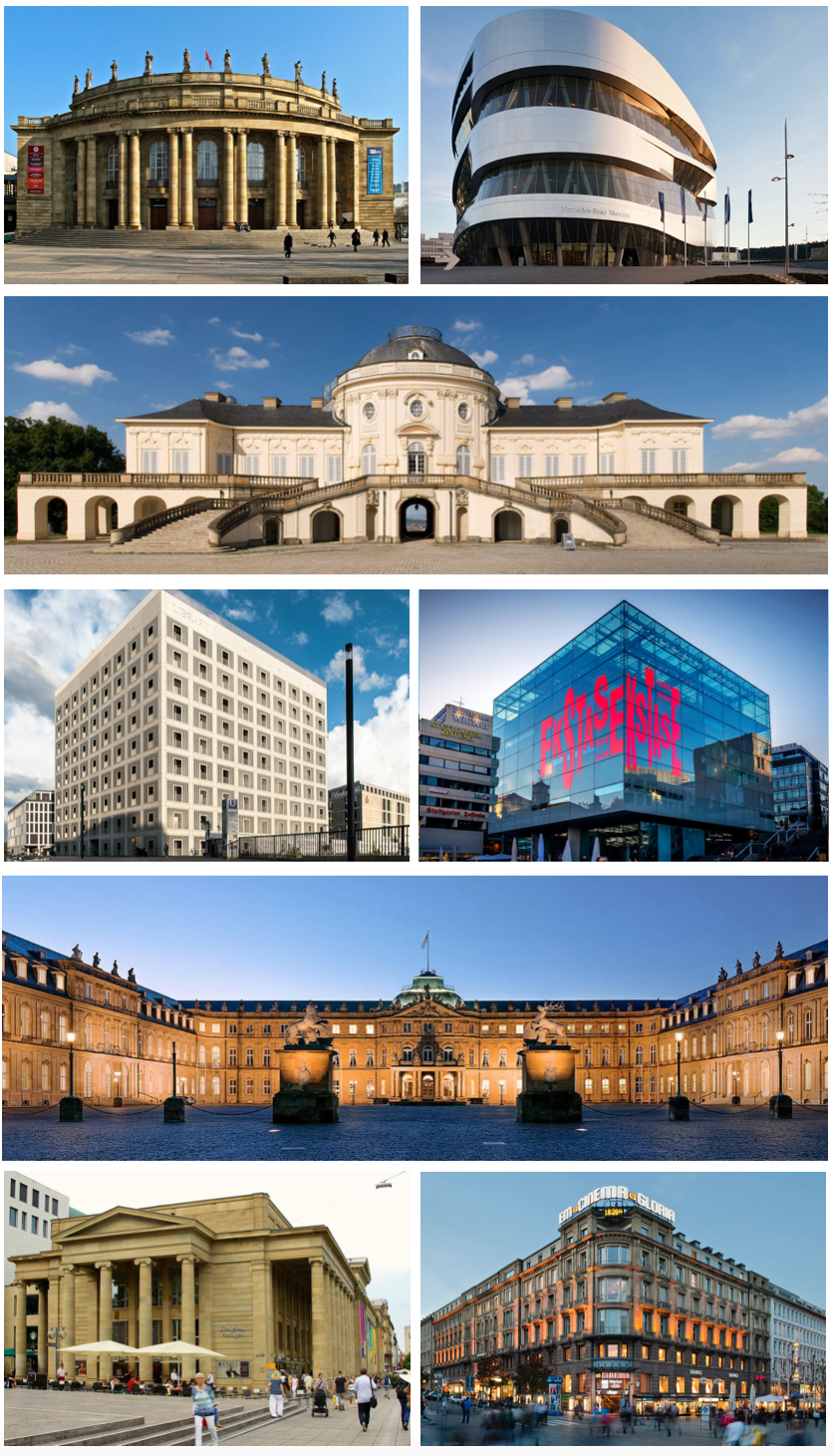 The file shows the various attractions and sights downtown Stuttgart has to offer